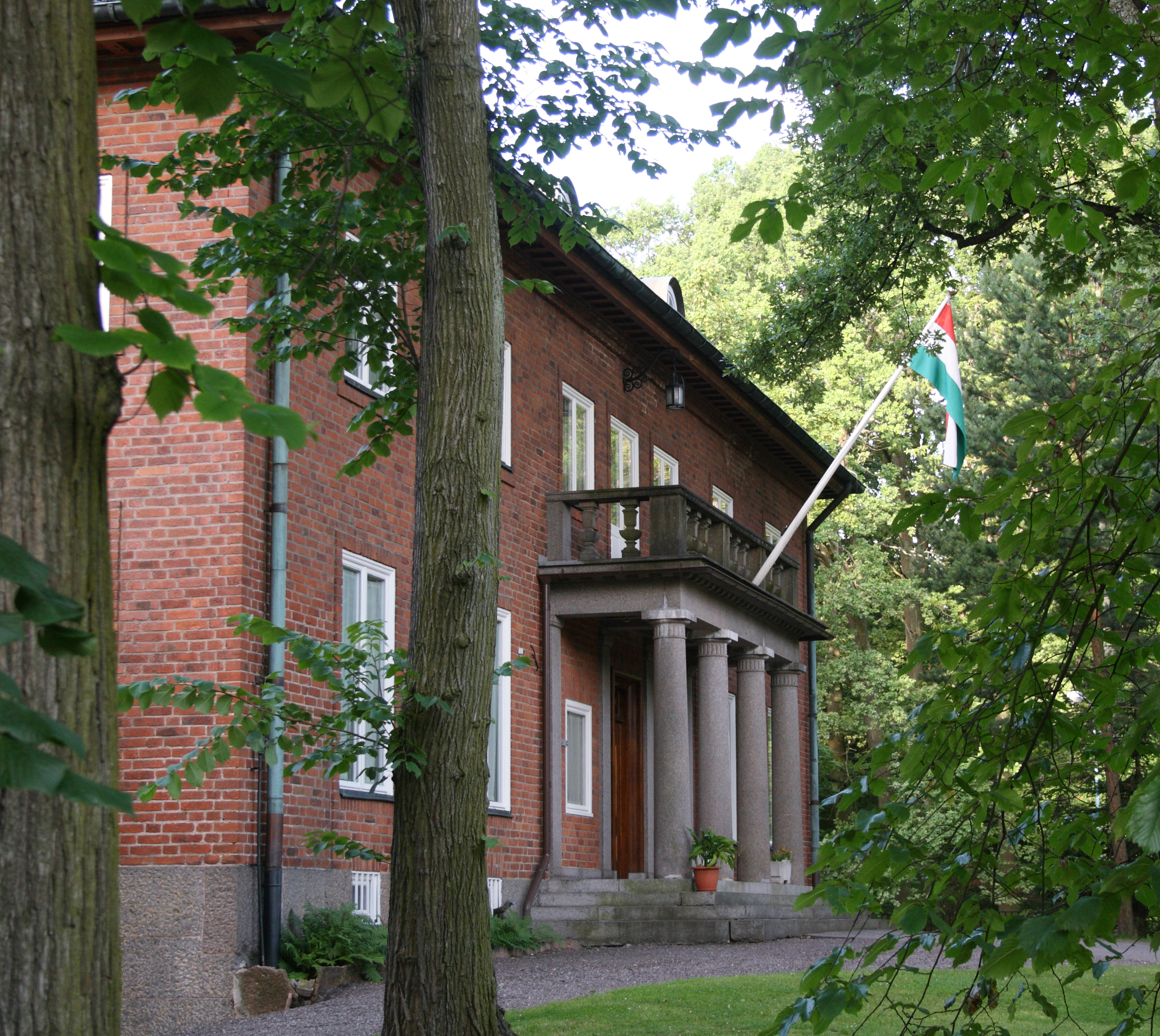 Embassy of Hungary in Stockholm, Villa Gumaelius